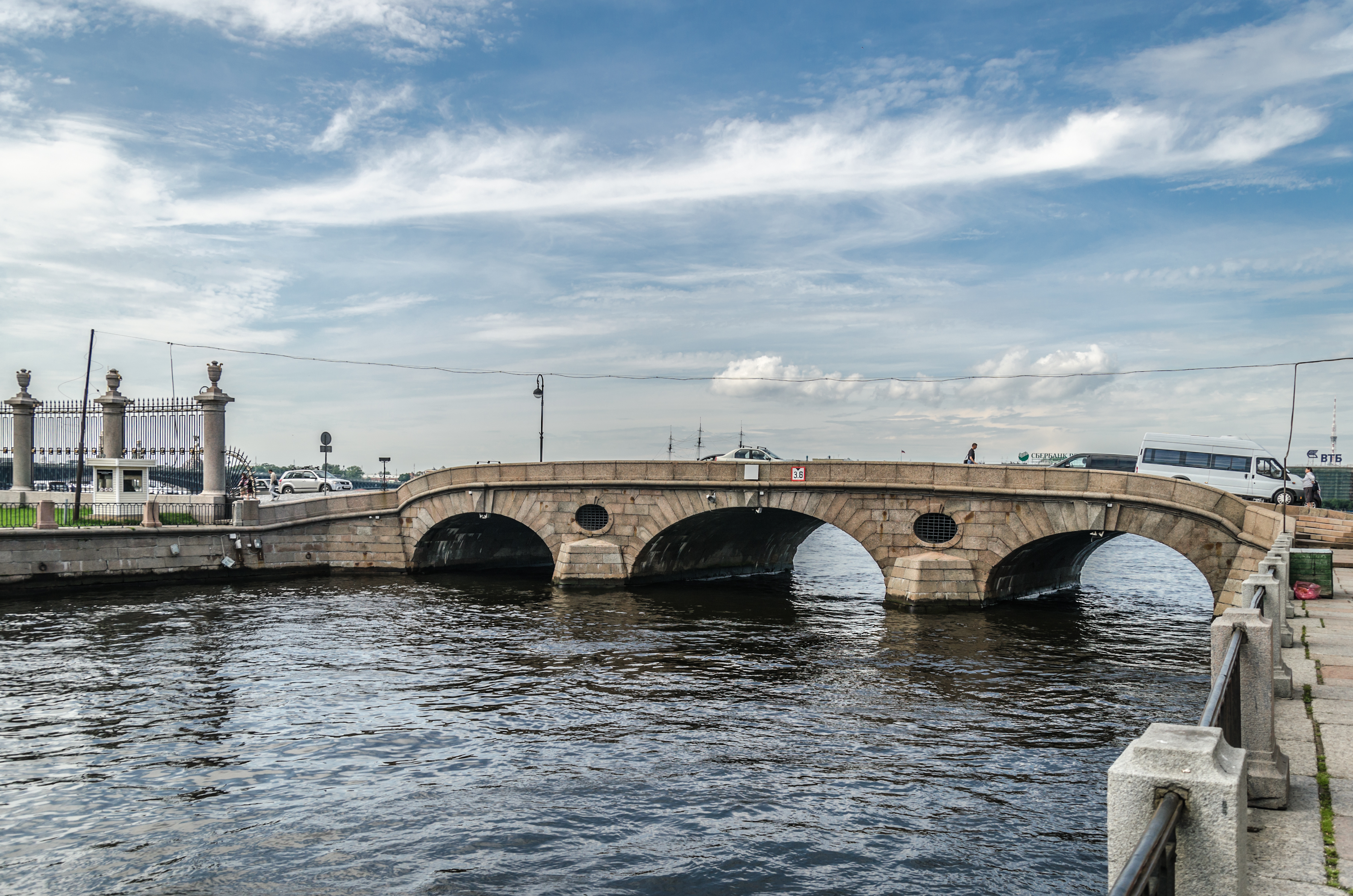 Prachechny Bridge in Saint Petersburg